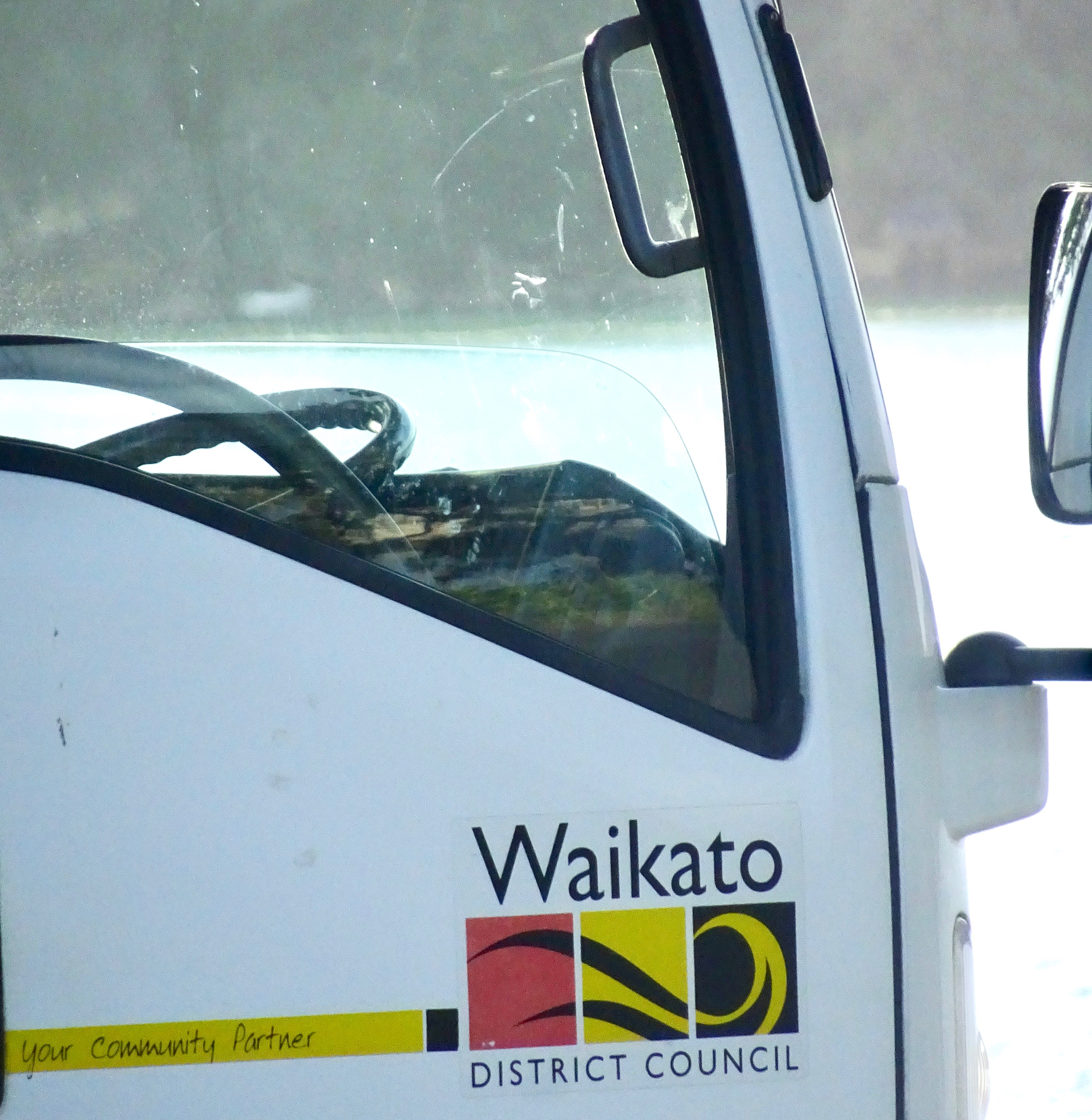 The current Waikato District Council logo has been in use since 2003